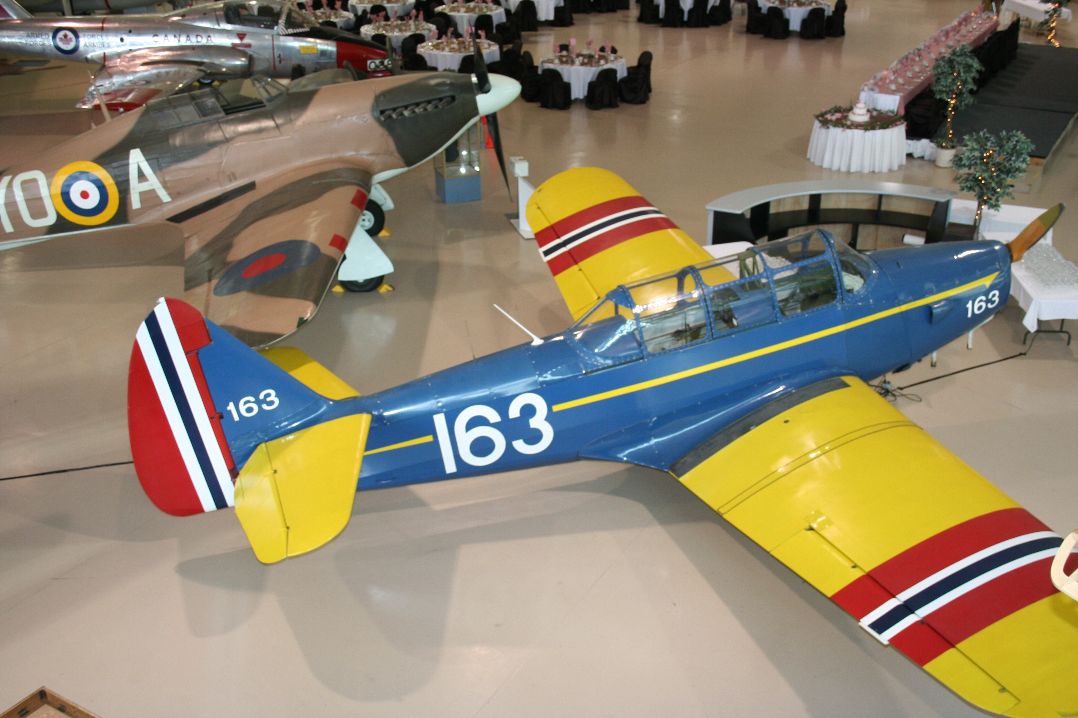 Fairchild PT-19 of the Royal Norwegian Air Force on display at the Canadian Warplane Heritage Museum.